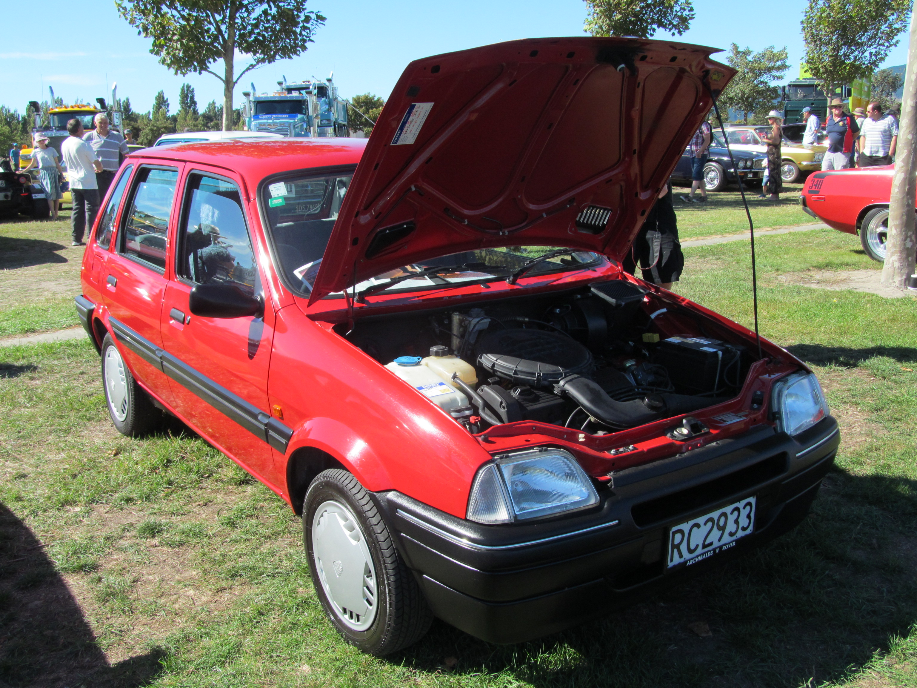 1991 Rover 114 SL in New Zealand